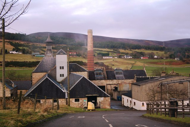 Brora Distillery Now warehouses, and a visitor centre, for the new Clynelish Distillery these buildings once housed the original stills.